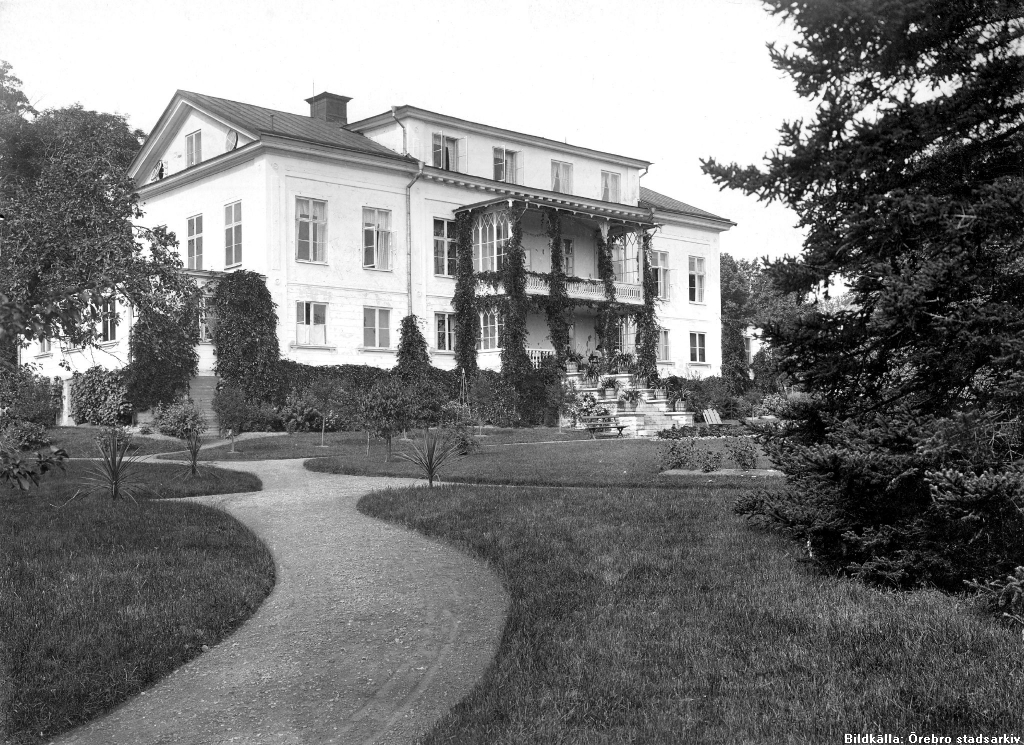 The manor Latorp outside Örebro, Sweden